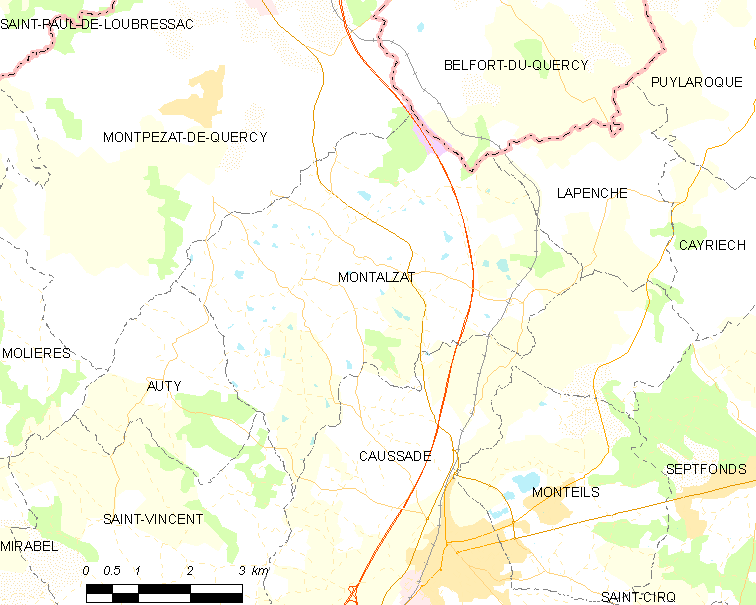 Map of French municipality Montalzat